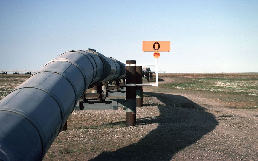 Trans-Alaska Pipeline